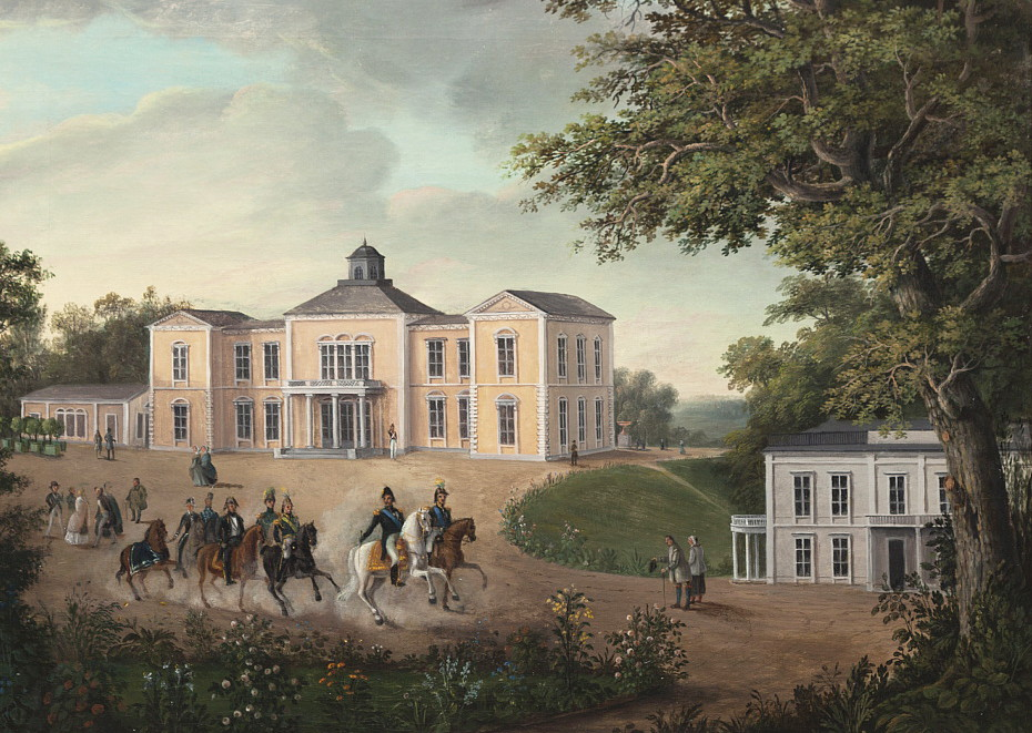 Rosendal Palace in the 1840s, Djurgården, Stockholm. In the foreground King Karl XIV Johan, the first Bernadotte King of Sweden, with attendants. Oilpainting by Axel Otto Mörner (1774-1852). 41x56 cm.